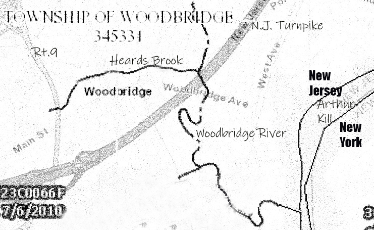 Course of Woodbridge River